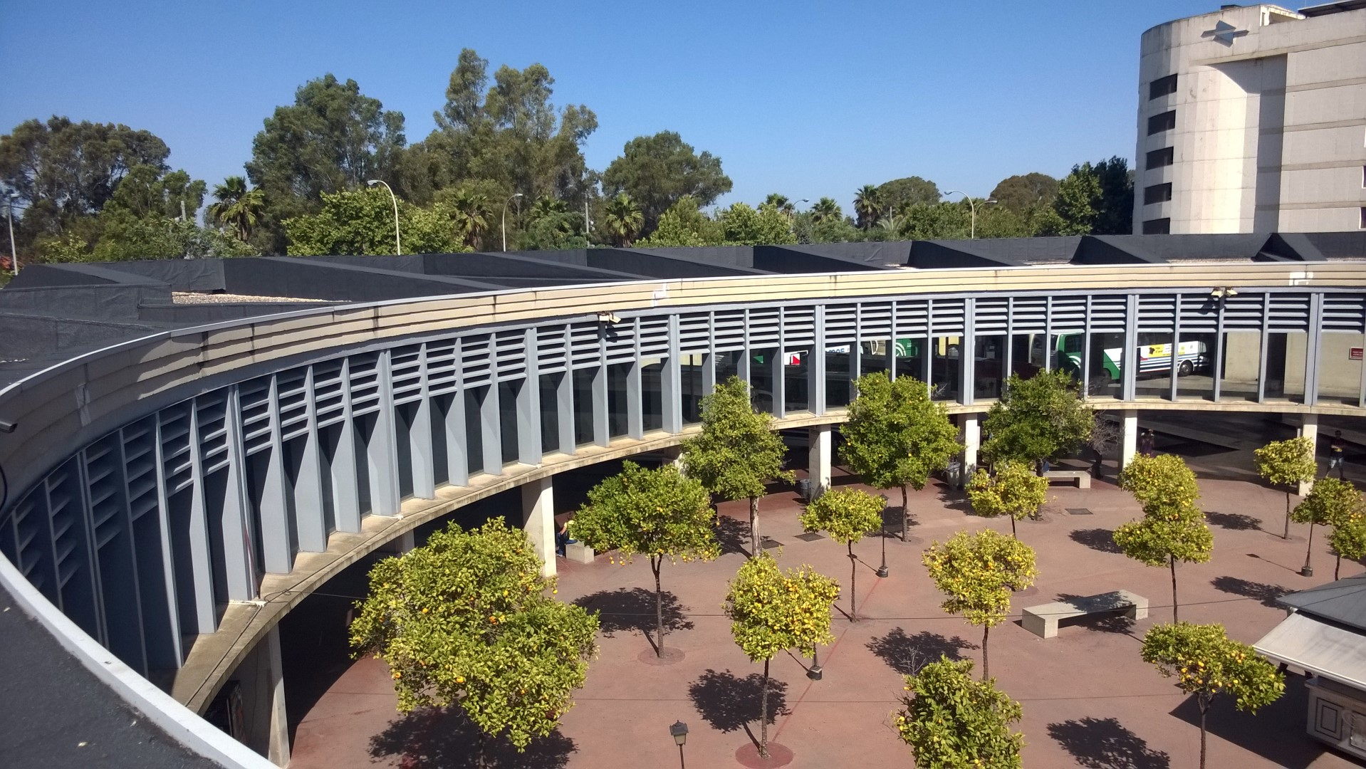 Patio central de la Estación de Autobuses de Huelva